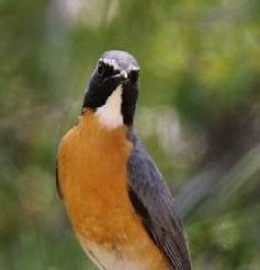 This photograph was taken taken by lusinemarg in Yelpin.